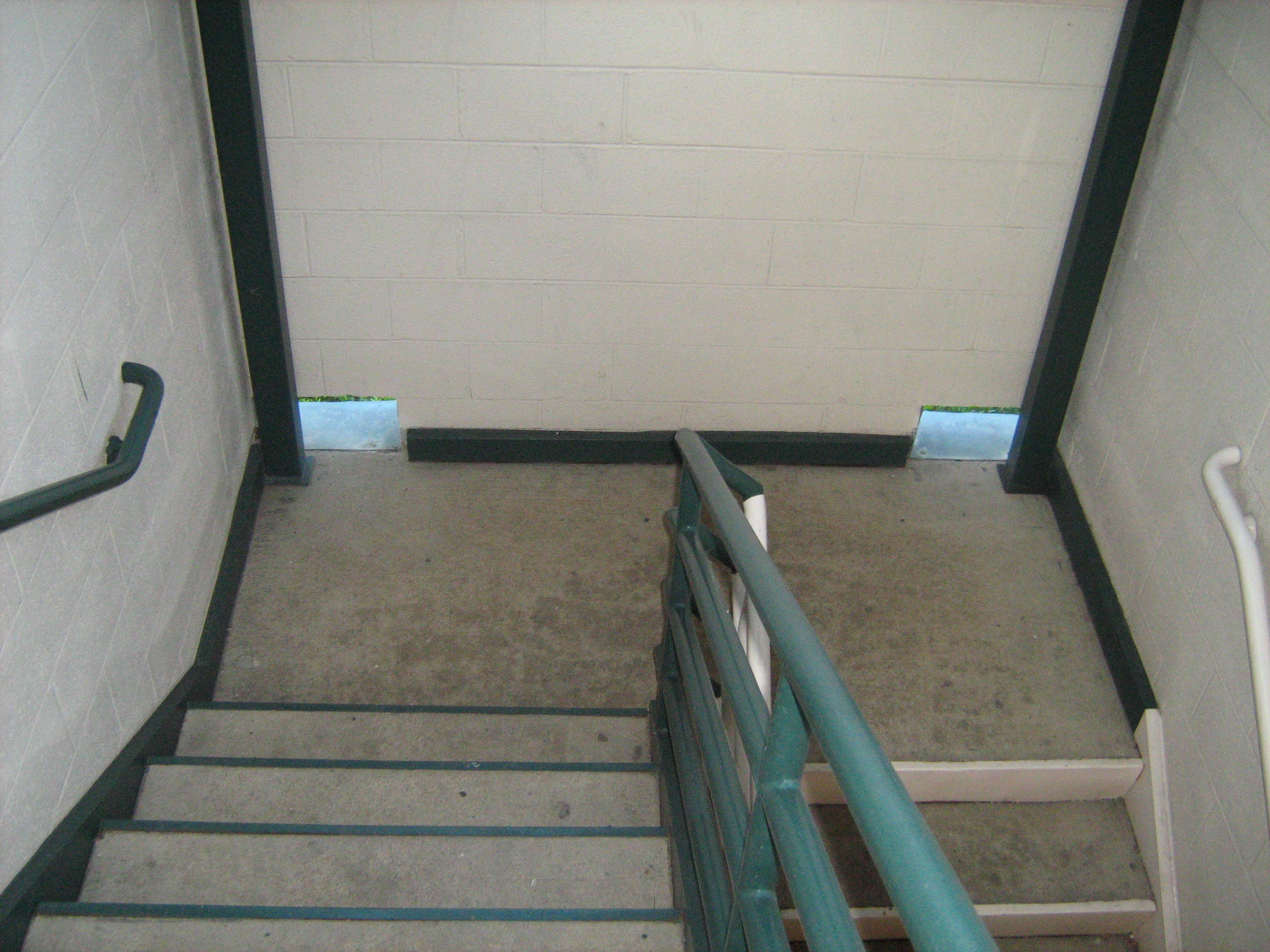 Photograph of scuppers, taken by Sim (Myself) primarily to add to the article on Scuppers. No rights reserved.